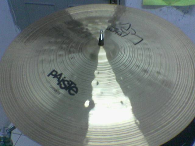 created by noobskater